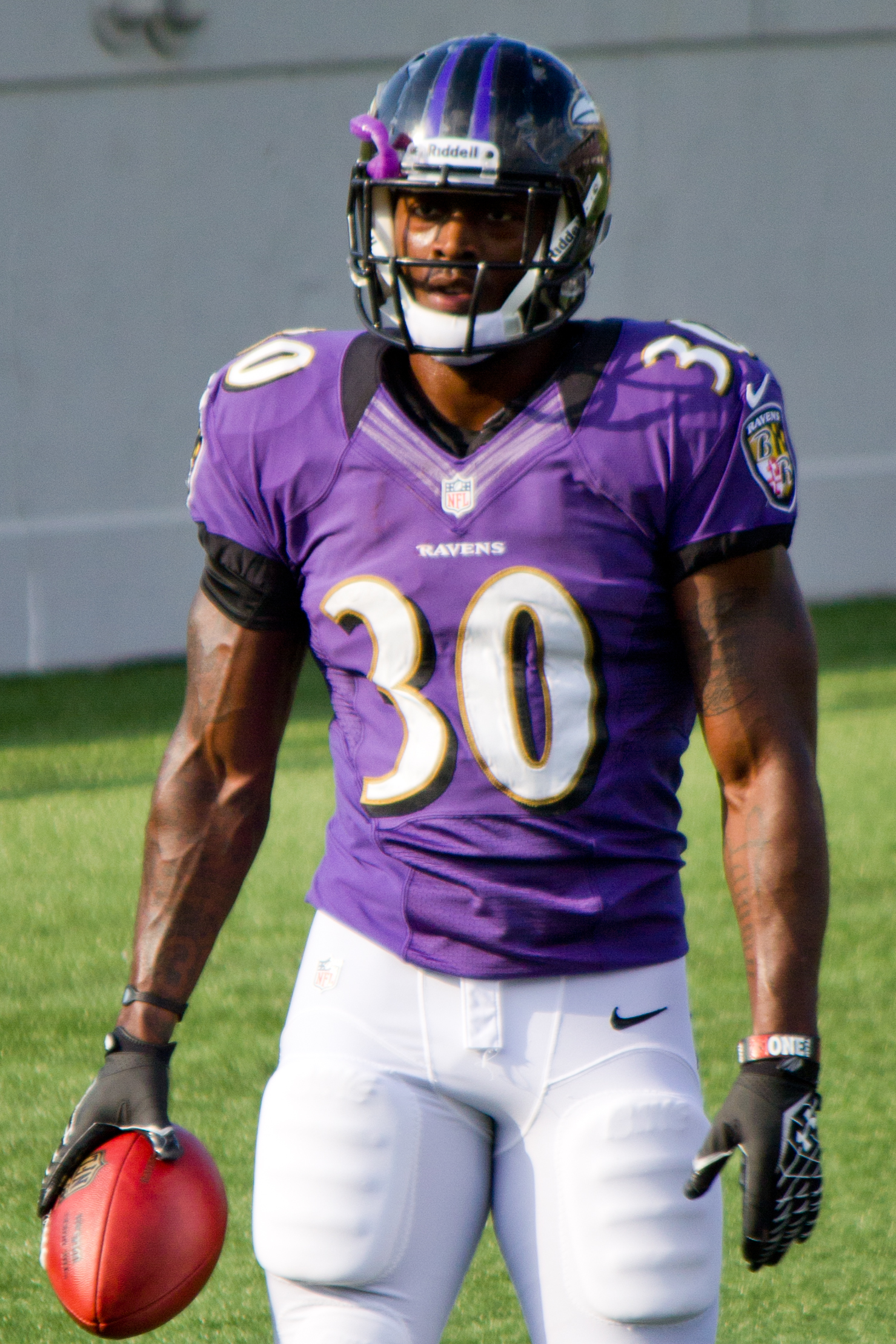 Bernard Pierce during Ravens practice at Navy–Marine Corps Memorial Stadium practice, August 2012.